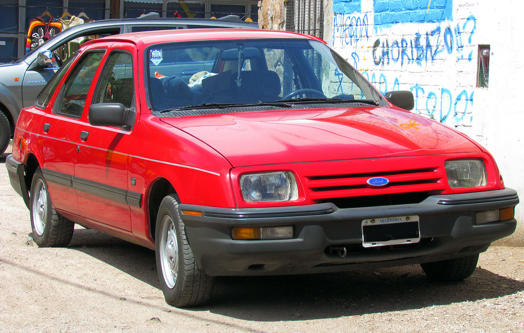 1987 Ford Sierra 1.6 GL five-door in Argentina. The Argentinian version has specific bumpers (like those of the Merkur XR4Ti) which are more sculpted and have extra cooling inlets.